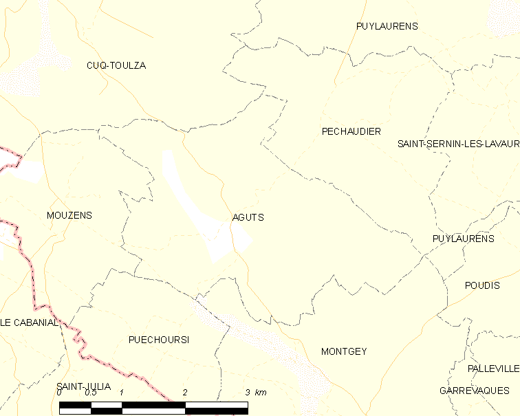 Map of French municipality Aguts